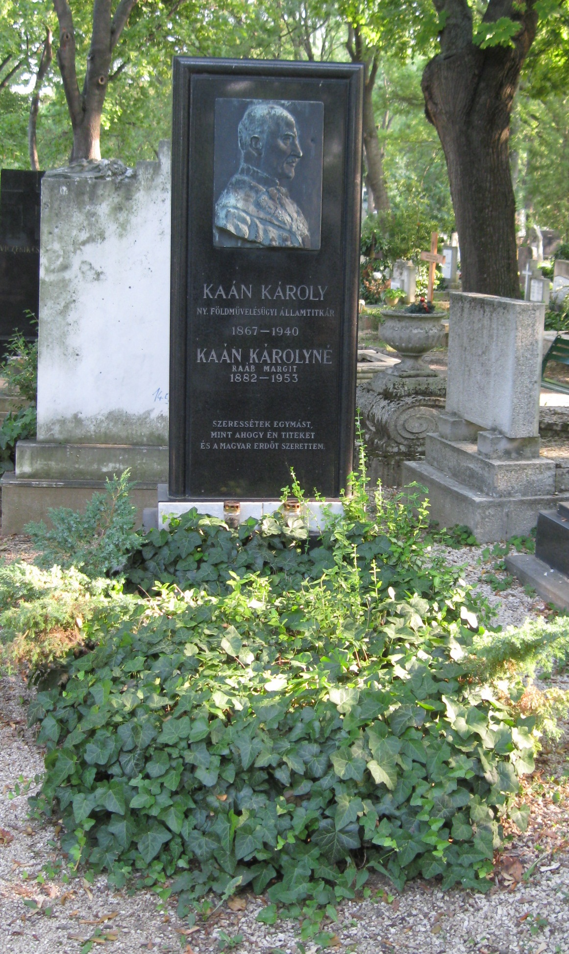 Tomb of Károly Kaán in Farkasréti Cemetery, Budapest District XII